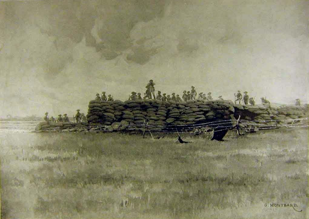 The Long Tom's epaulements at Mafeking, manned by the besieging Boer soldiers Print Caption: "Boer fort which covered the enemy's "Long Tom". Page from The Illustrated London News, .... .... Likely based on a photograph by Jan van Hoepen (1856–1922), Pretoria